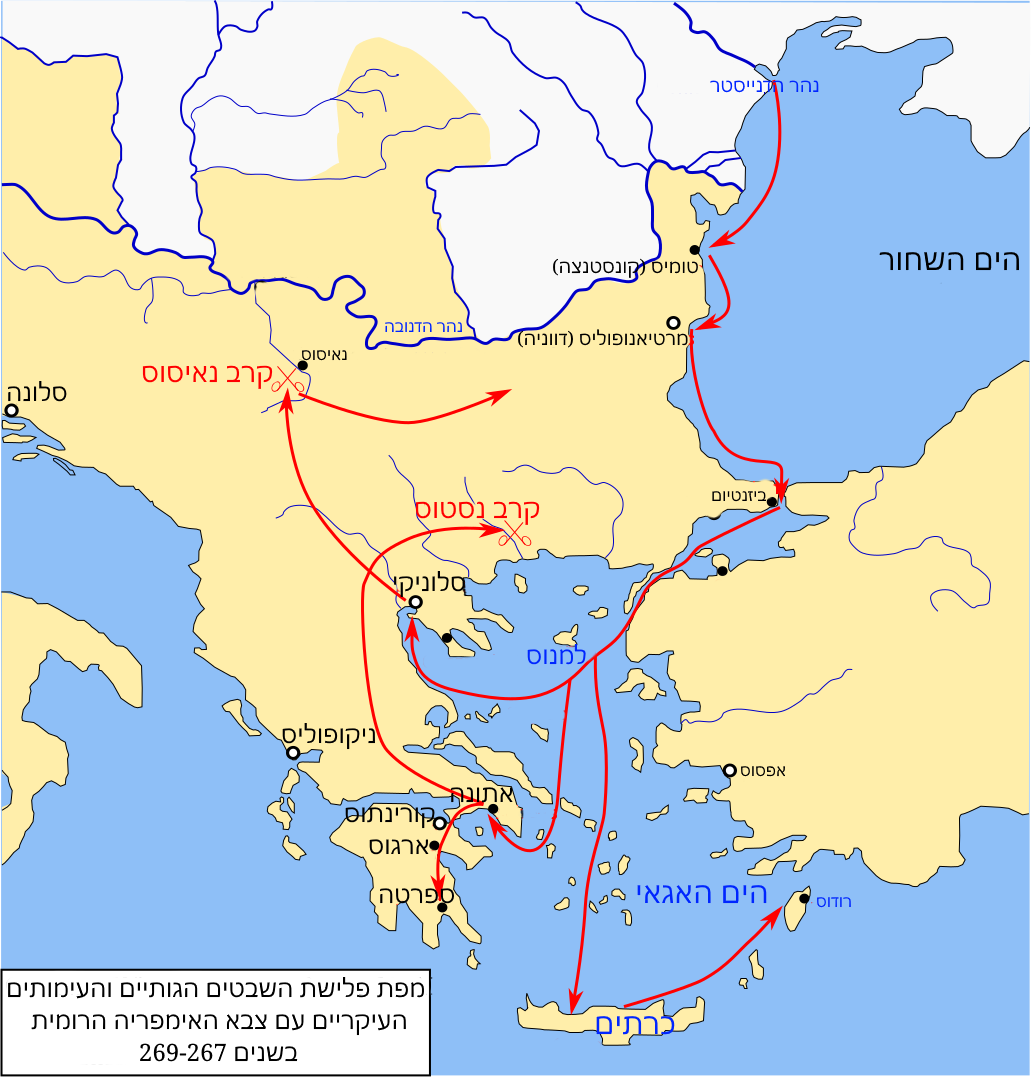 A map of the Gothic-Erulian invasion of the Balkans in 267-269 AD (emperors: Gallienus, Claudius Gothicus). This map follows the 2-invasions theory